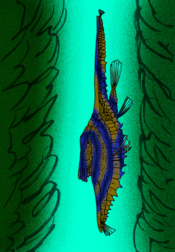 Restoration of the abberant pycnodontid fish, Maraldichthys verticalis, of the Lower Cenomanian of Cretaceous Lebanon.